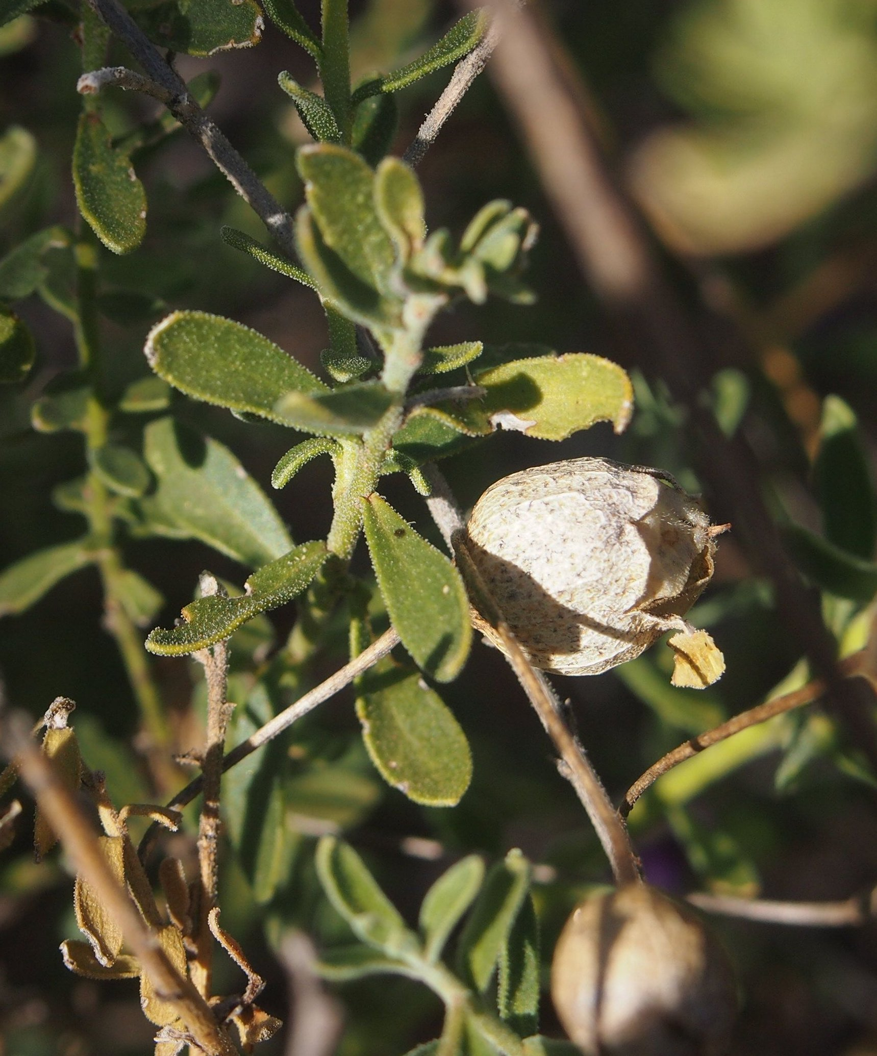 Eremophila macdonellii fruit